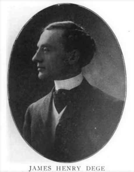 James Henry Dege, Tacoma, WA